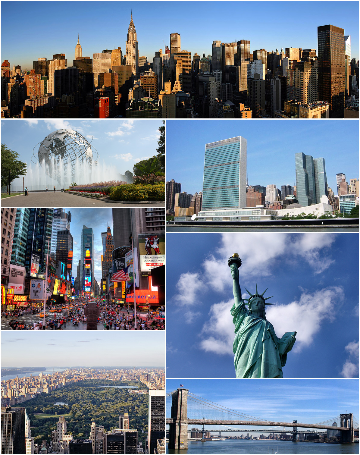 Photo montage of New York City